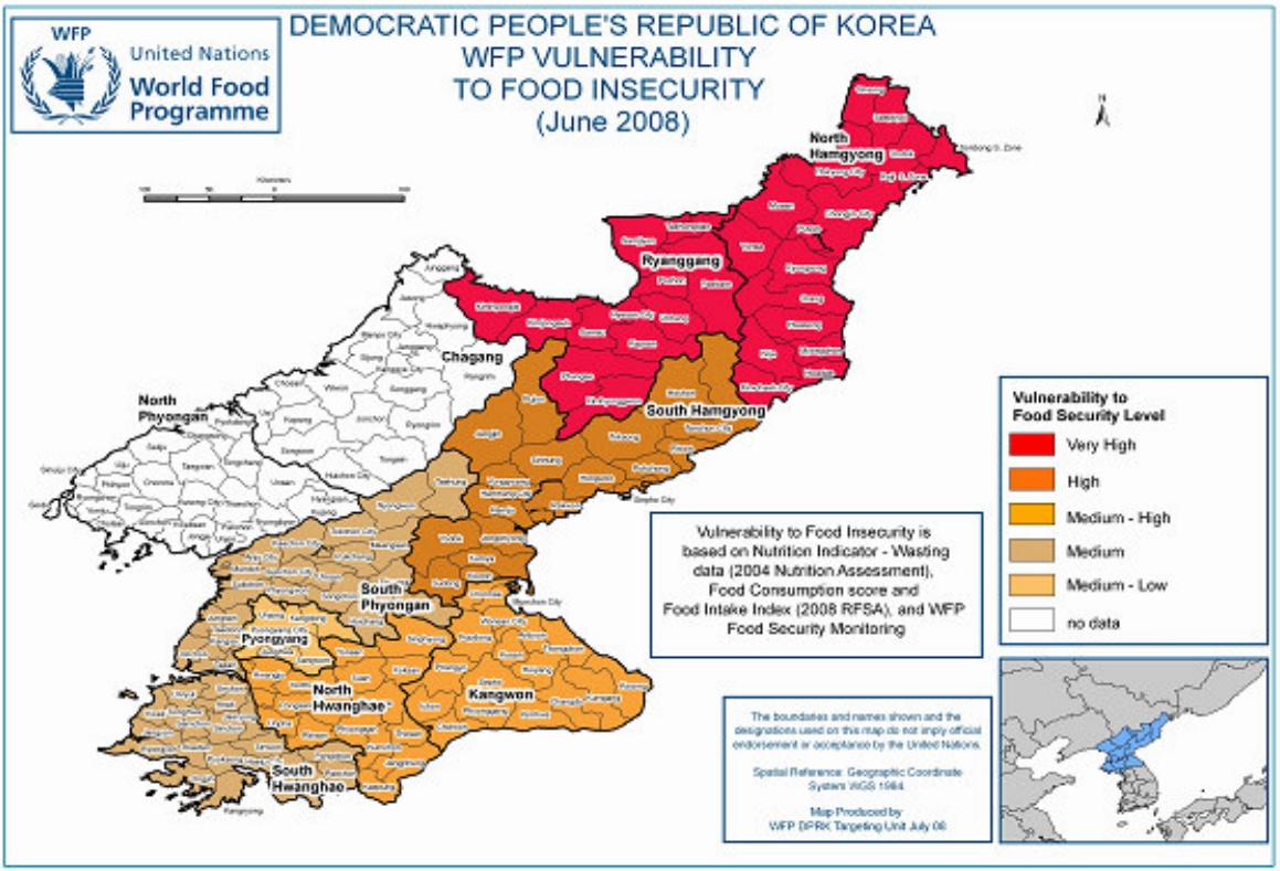 Map of DPR Korea Food Vulnerability and Insecurity 2008. This map was published in the FAO/WFP, “Executive Summary: Rapid Food Security Assessment: Democratic People’s Republic of Korea”, June/July 2008. It was republished in 2014 by the United Nations Human Rights Council Session 25 Report of the detailed findings of the commission of inquiry on human rights in the Democratic People's Republic of Korea A/HRC/25/CRP.1 7.